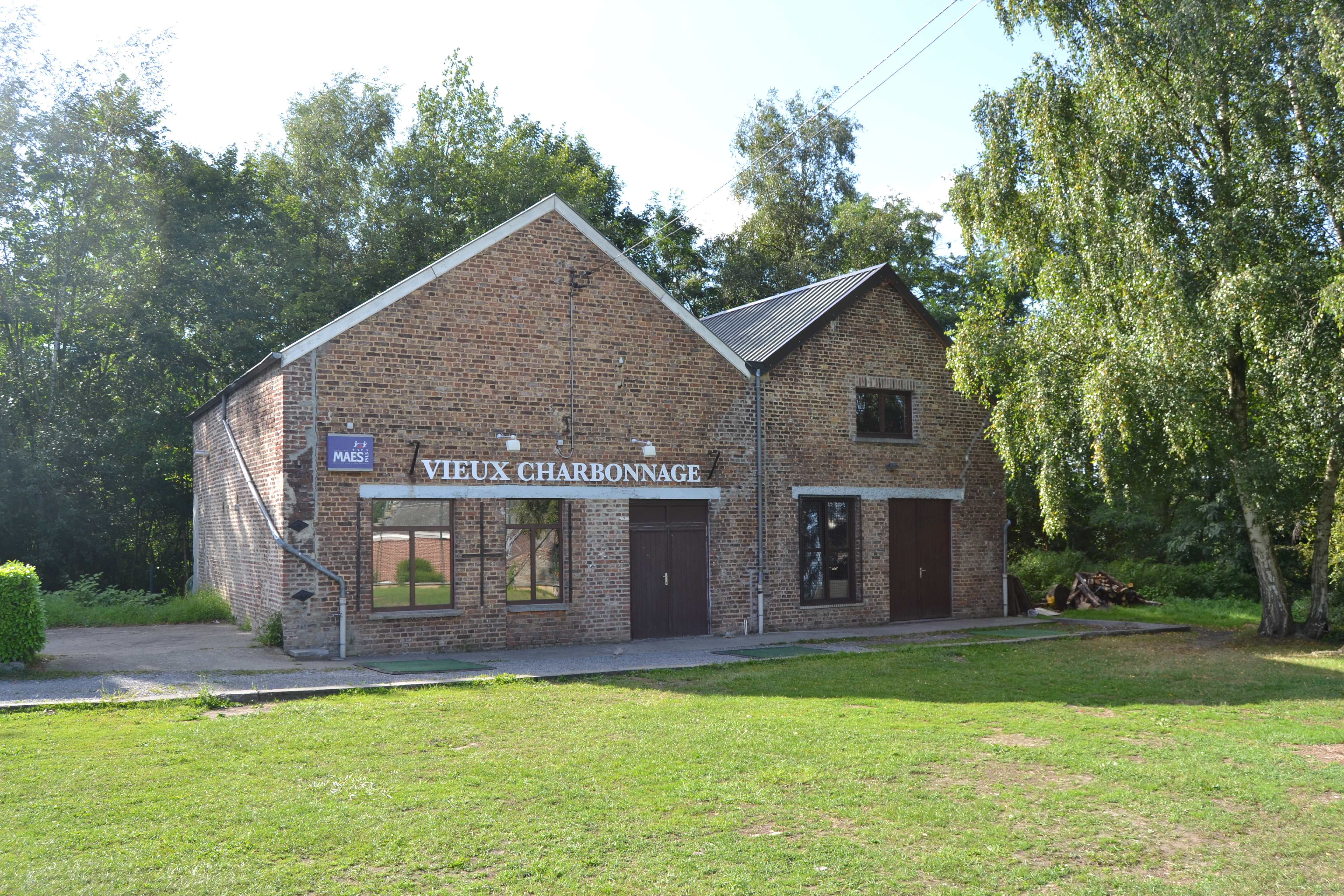 Ancient pit of the Gives coal mine in Huy, Belgium